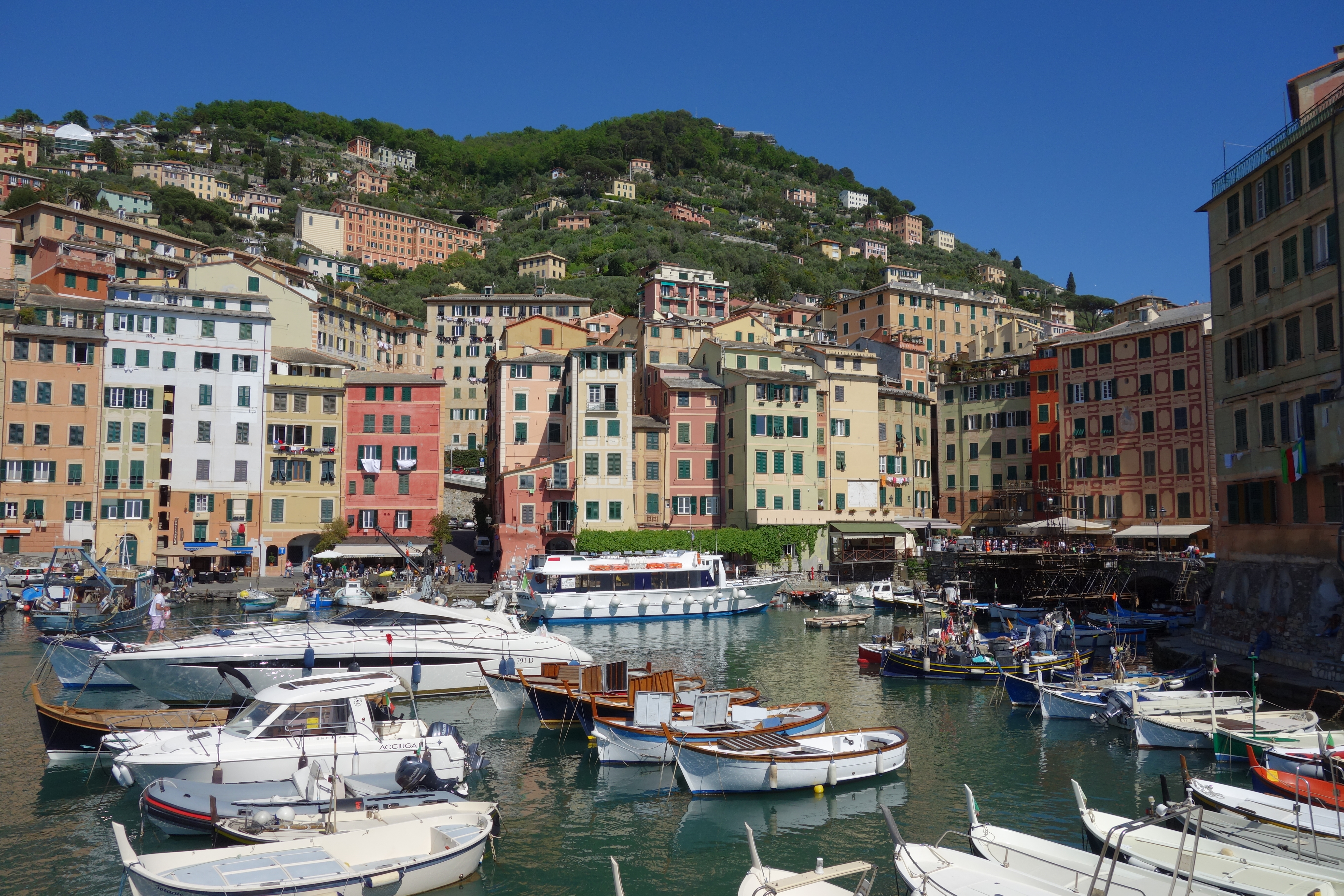 View of Camogli bay.